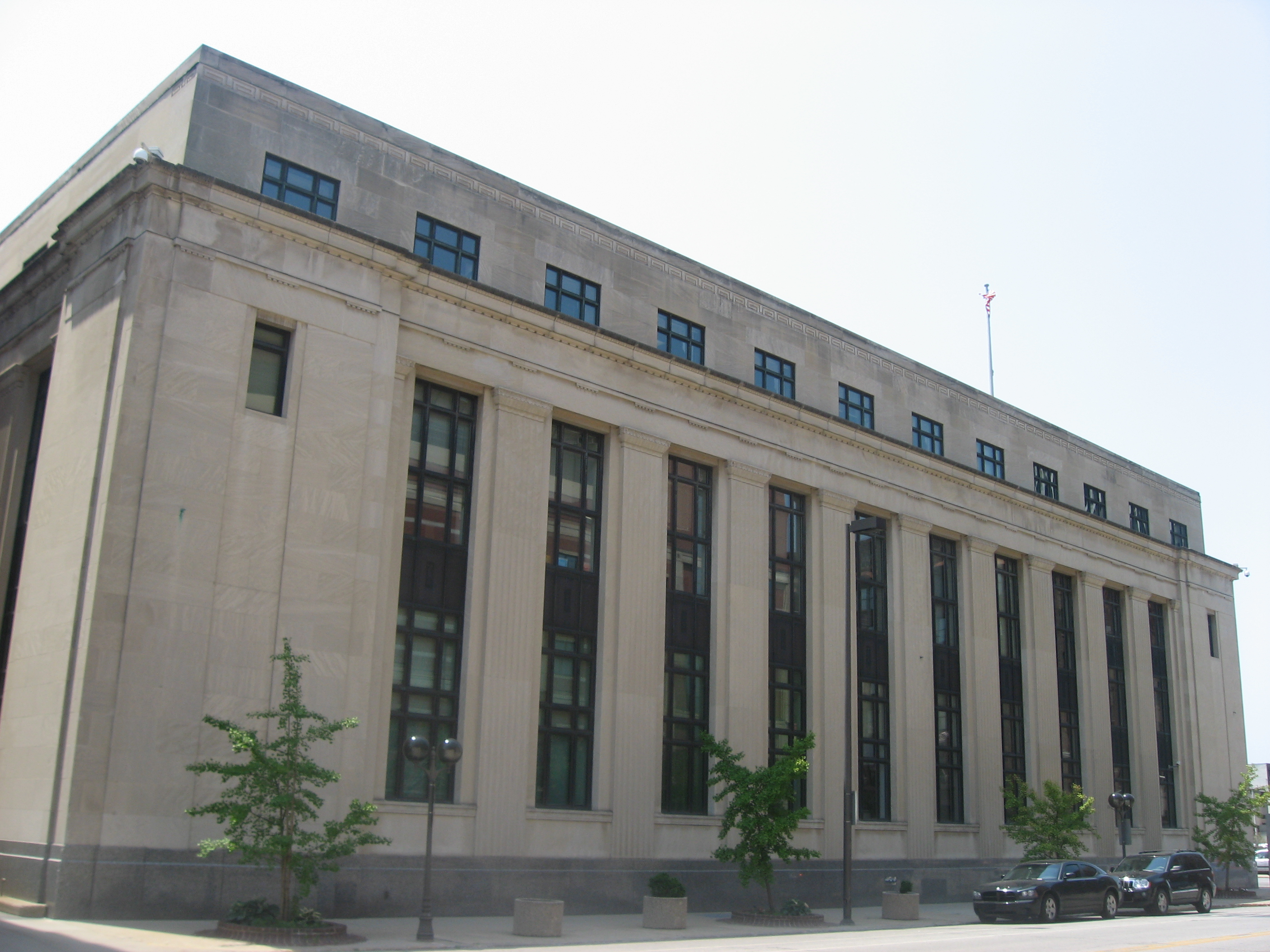 Northern side of the Robert A. Grant Federal Building and U.S. Courthouse, located at 204 S. Main Street (State Road 933) in downtown South Bend, Indiana, United States. It was built in 1933 and houses one of the three divisions of the United States District Court for the Northern District of Indiana. It is listed on the National Register of Historic Places.